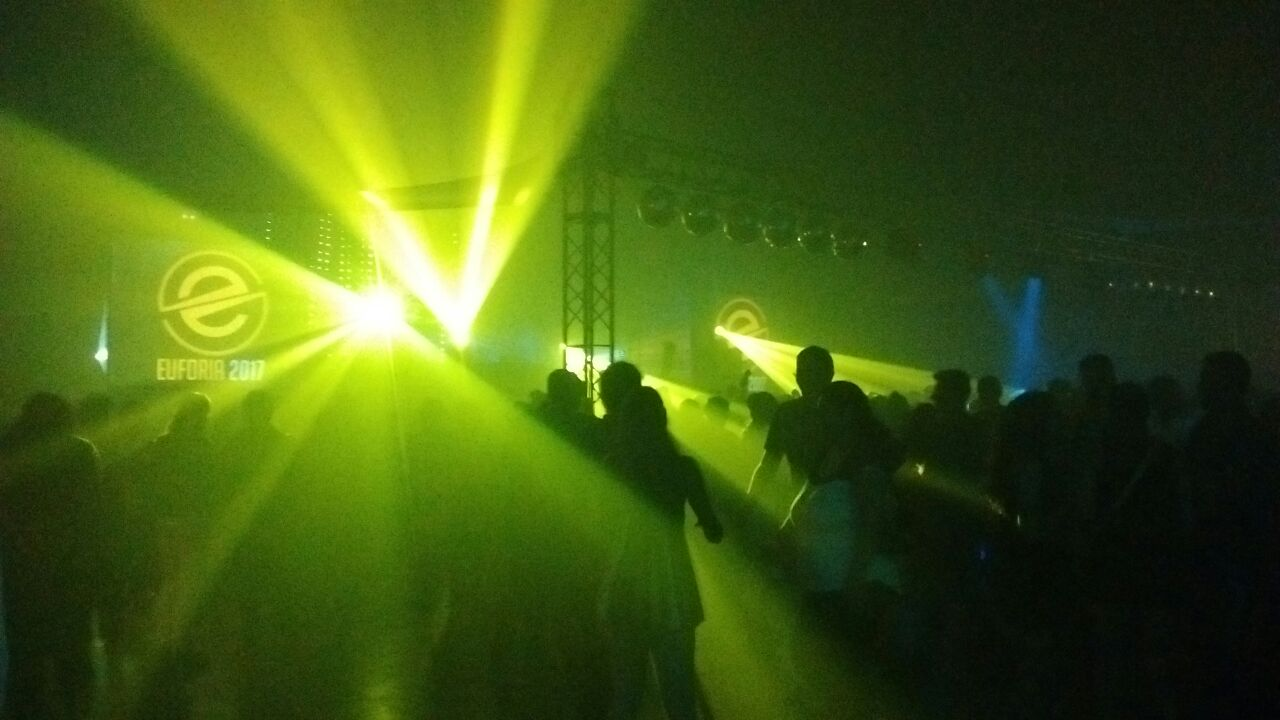 People dancing at the party's fifth edition, made in February 2017